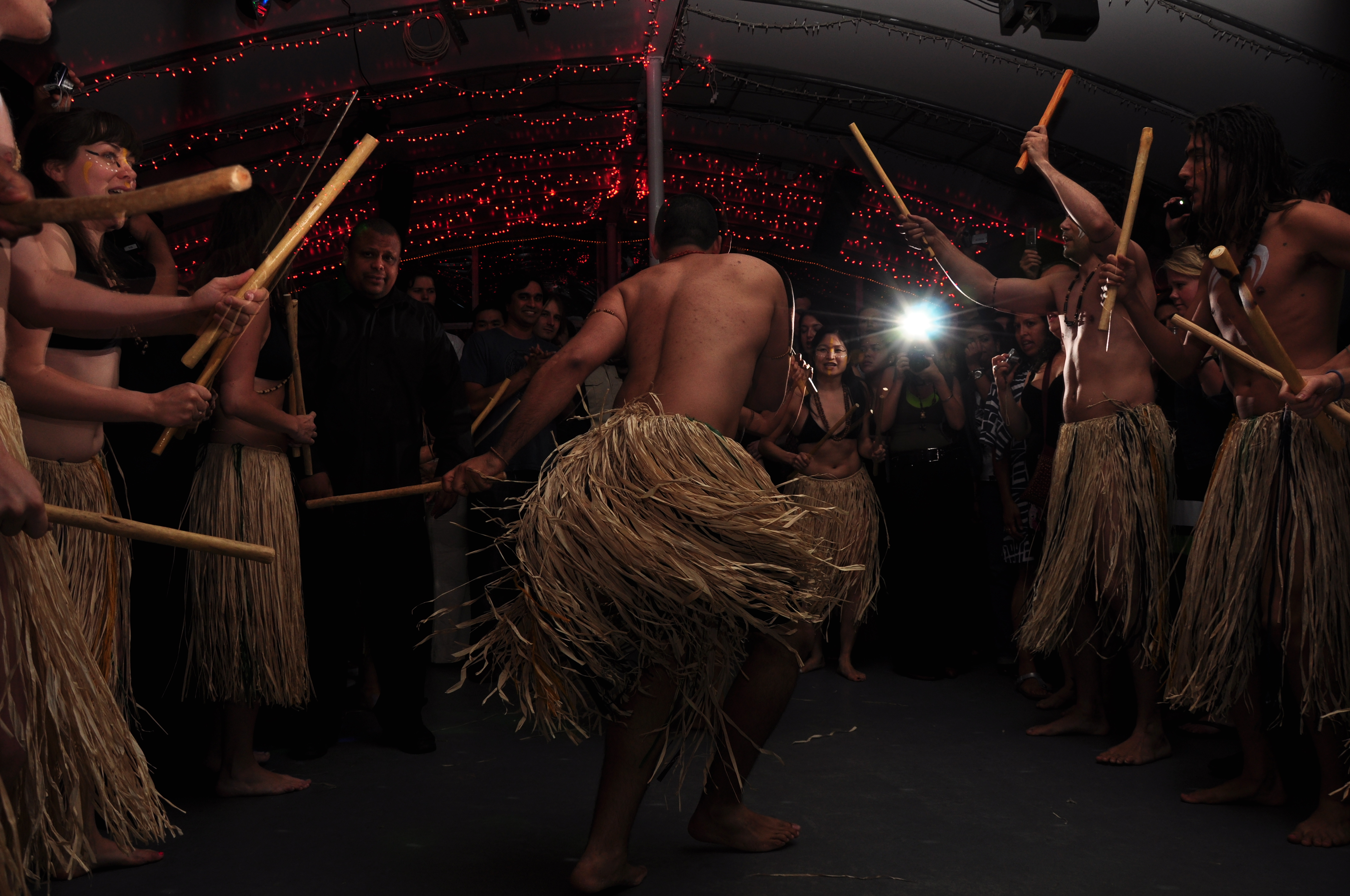 A group of people performing Maculelê in New York.